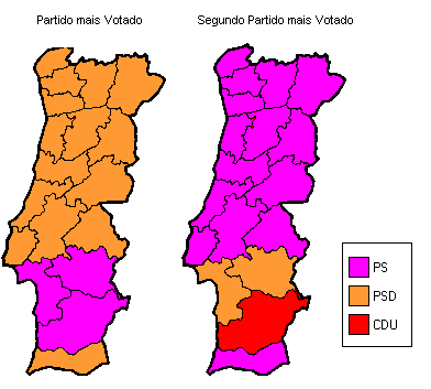 The most vote (left) and second most voted party at the Portuguese legislative election, 2011